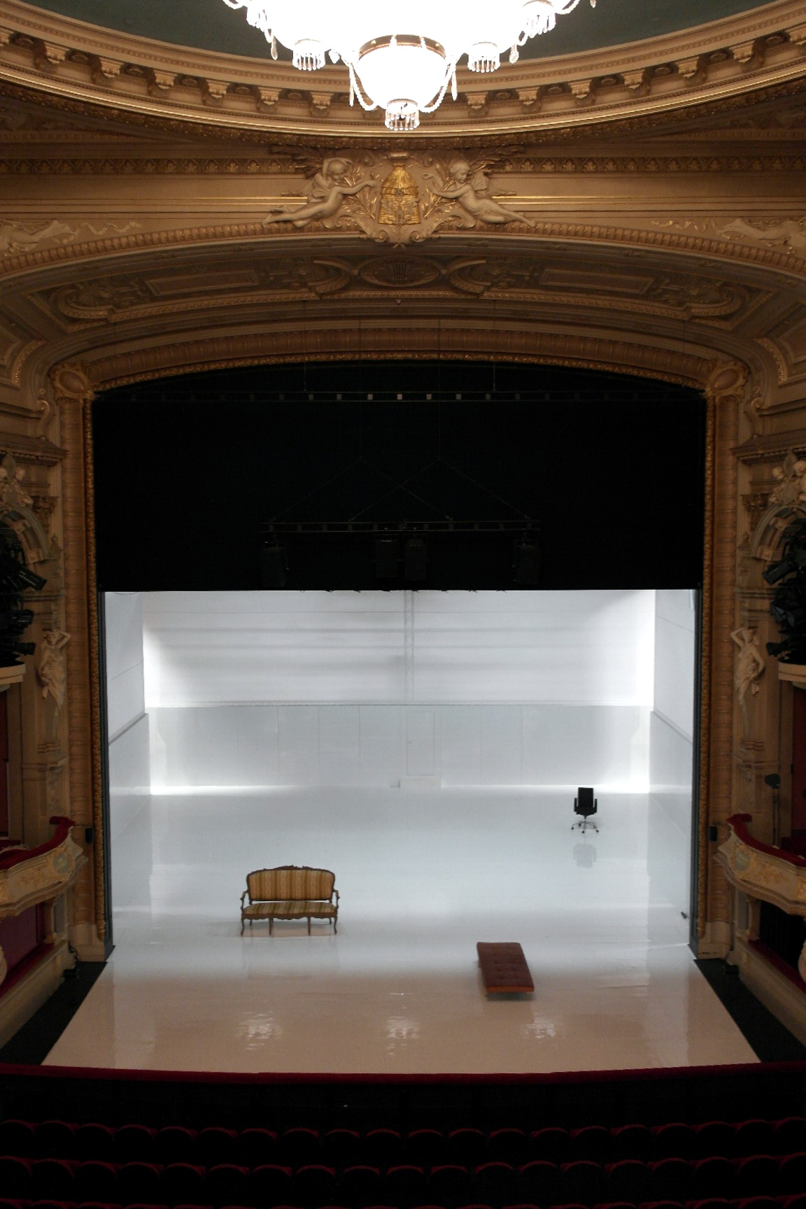 Amsterdam, the Netherlands. View of the stage of the main hall (Grote Zaal) of Stadsschouwburg, Amsterdam's municipal theatre.